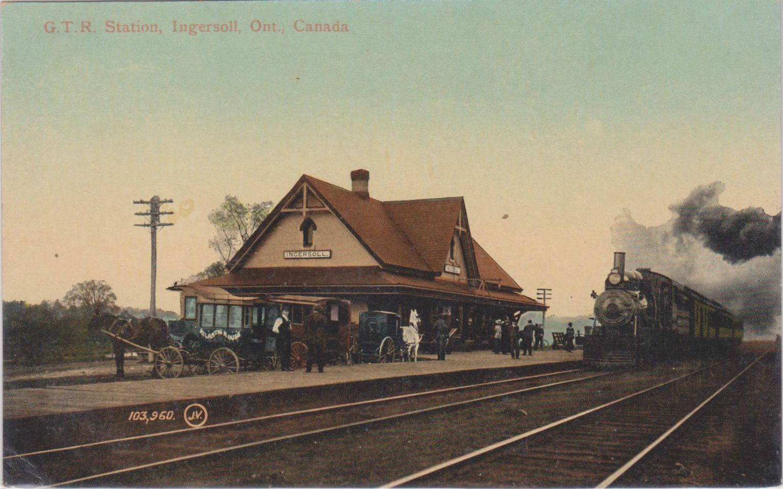 The GTR Station at Ingersoll Grand Trunk Railway Publisher: Valentine & Sons, ca. 1915